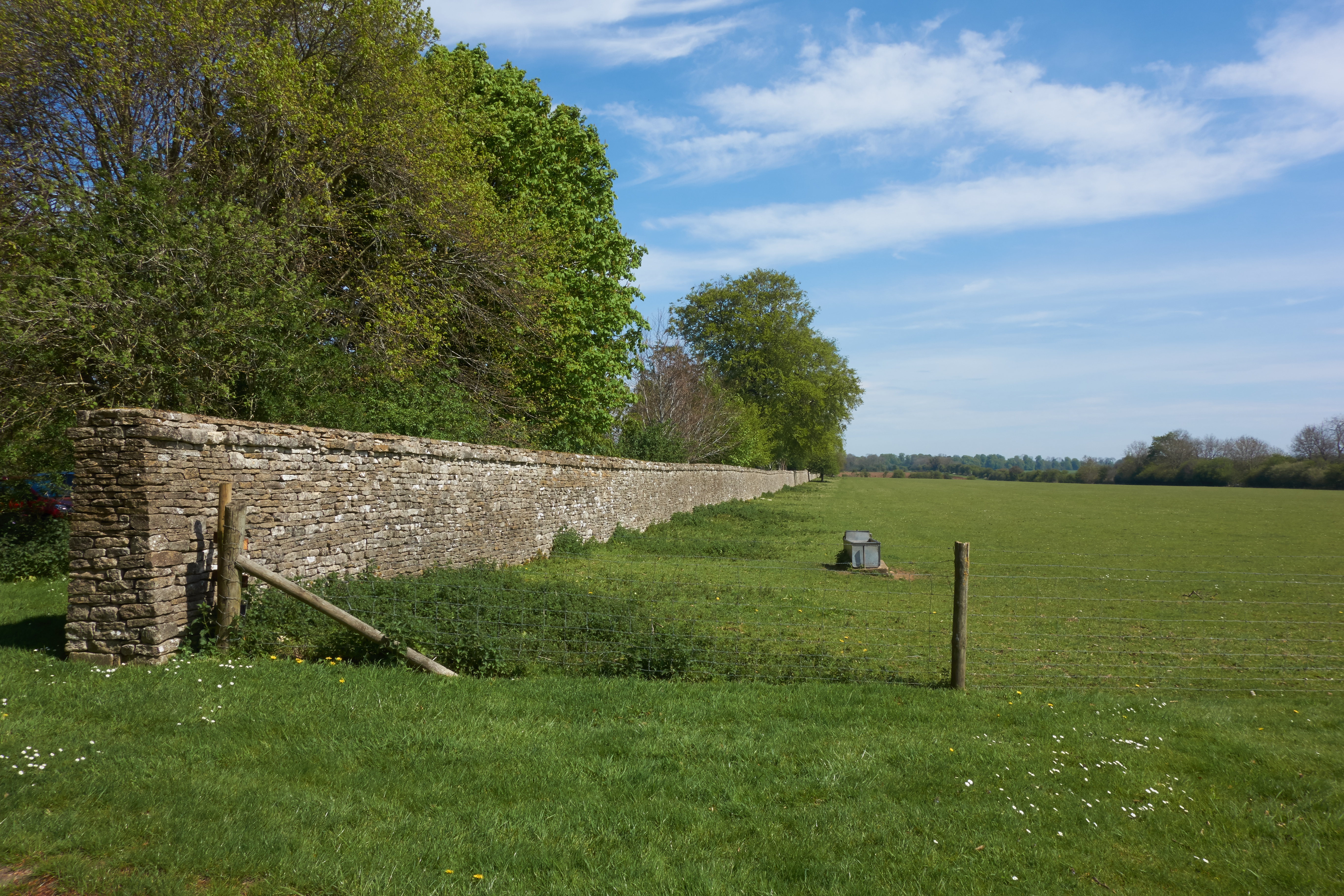 Deer coursing enclosure. Parallel walls 2m high run for 1600m, used for hunting deer with dogs. Constructed c1630s.